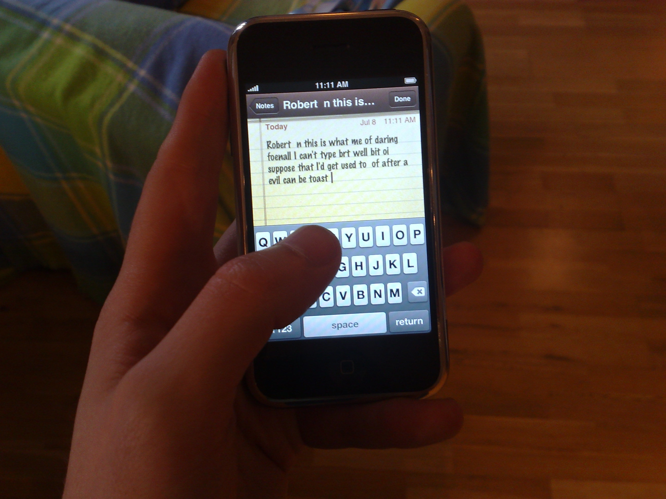 Having a play on Robert's iPhone typing random, sometimes common words to see how the keyboard works. It's an...interesting device. Note the 'big hands' technique.